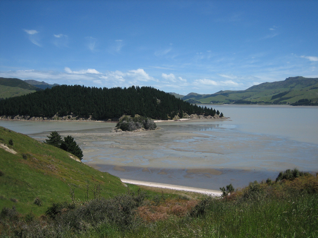 At low tide, it is possible to walk from the mainland (background) to Quail Island. The much smaller King Billy Island in the foreground.